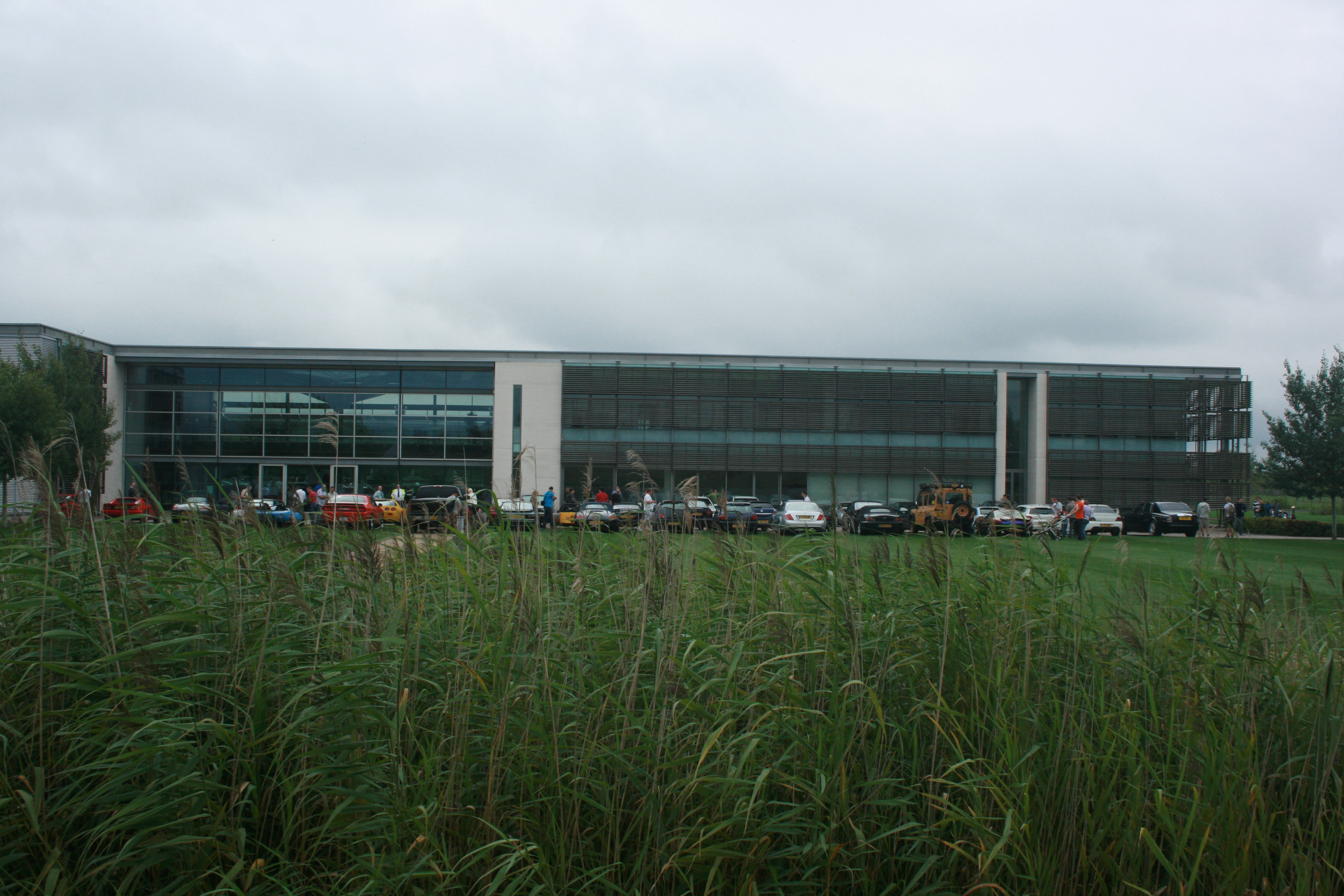 Dull weather at Rolls-Royce plant, Goodwood.